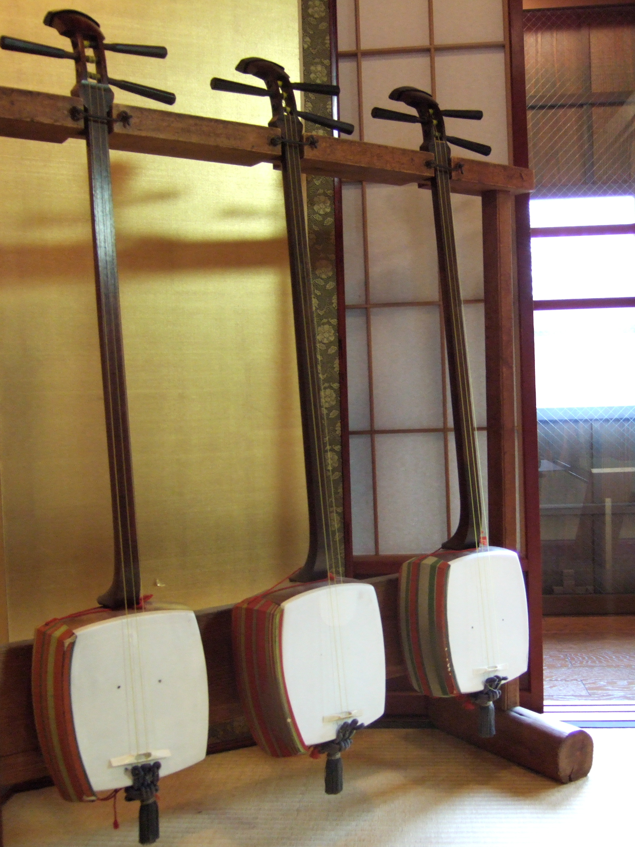 Shamisen at a teahouse museum in Kanazawa